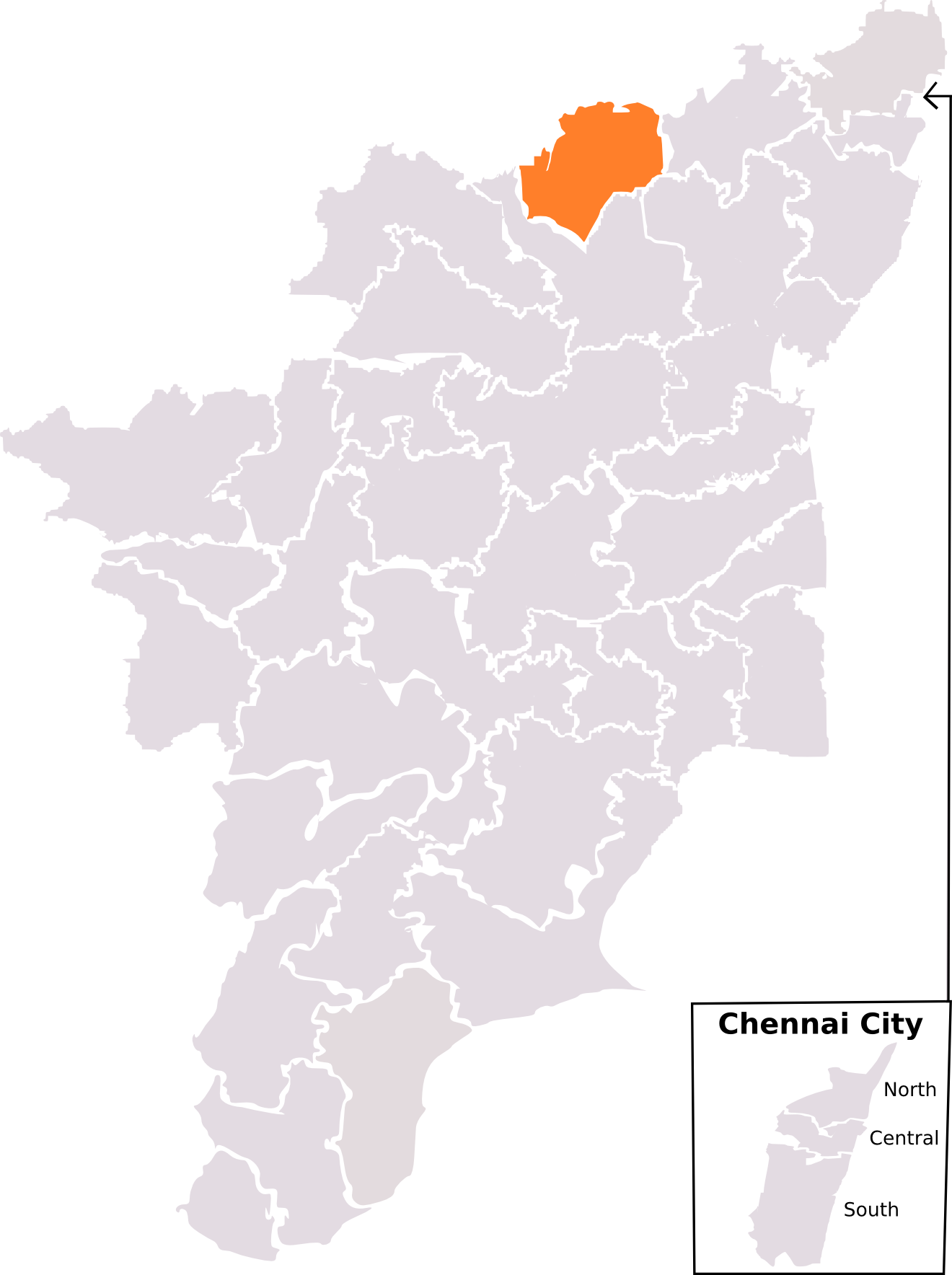 Lok Sabha Election map labeling each constituency for individual pages for Tamil Nadu after delimitation starting 2009 election. Map is based on ECI drawn map from